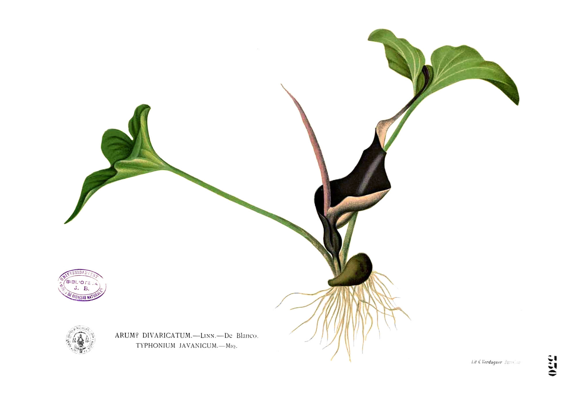 Plate from book